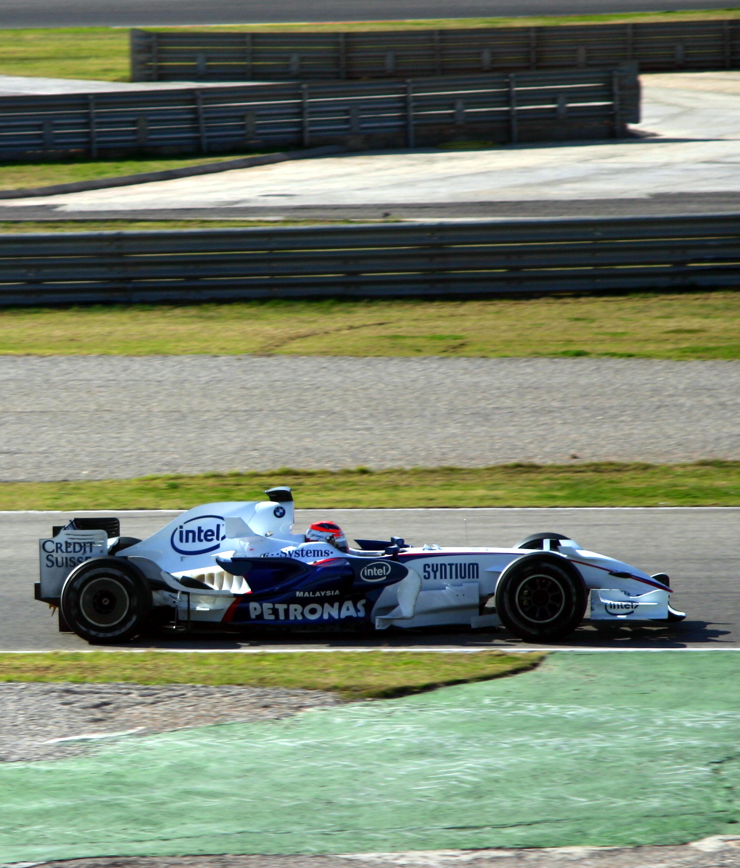 Robert Kubica testing at Cheste, Valencia